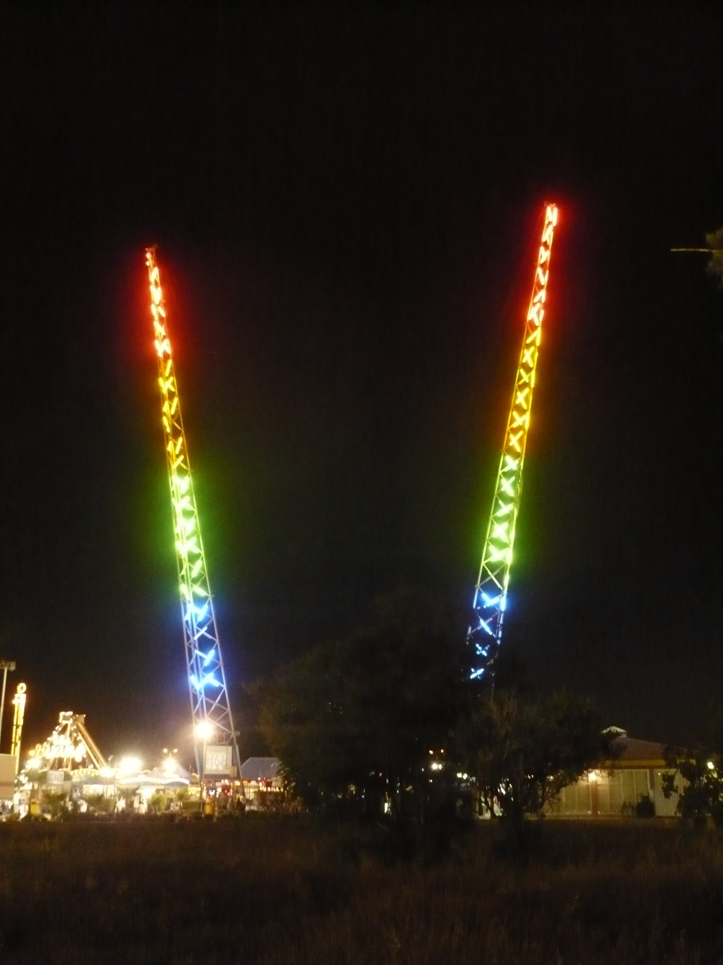 Сyprus. Agia-Napa. Amusement Park (Luna Park). "Catapult"